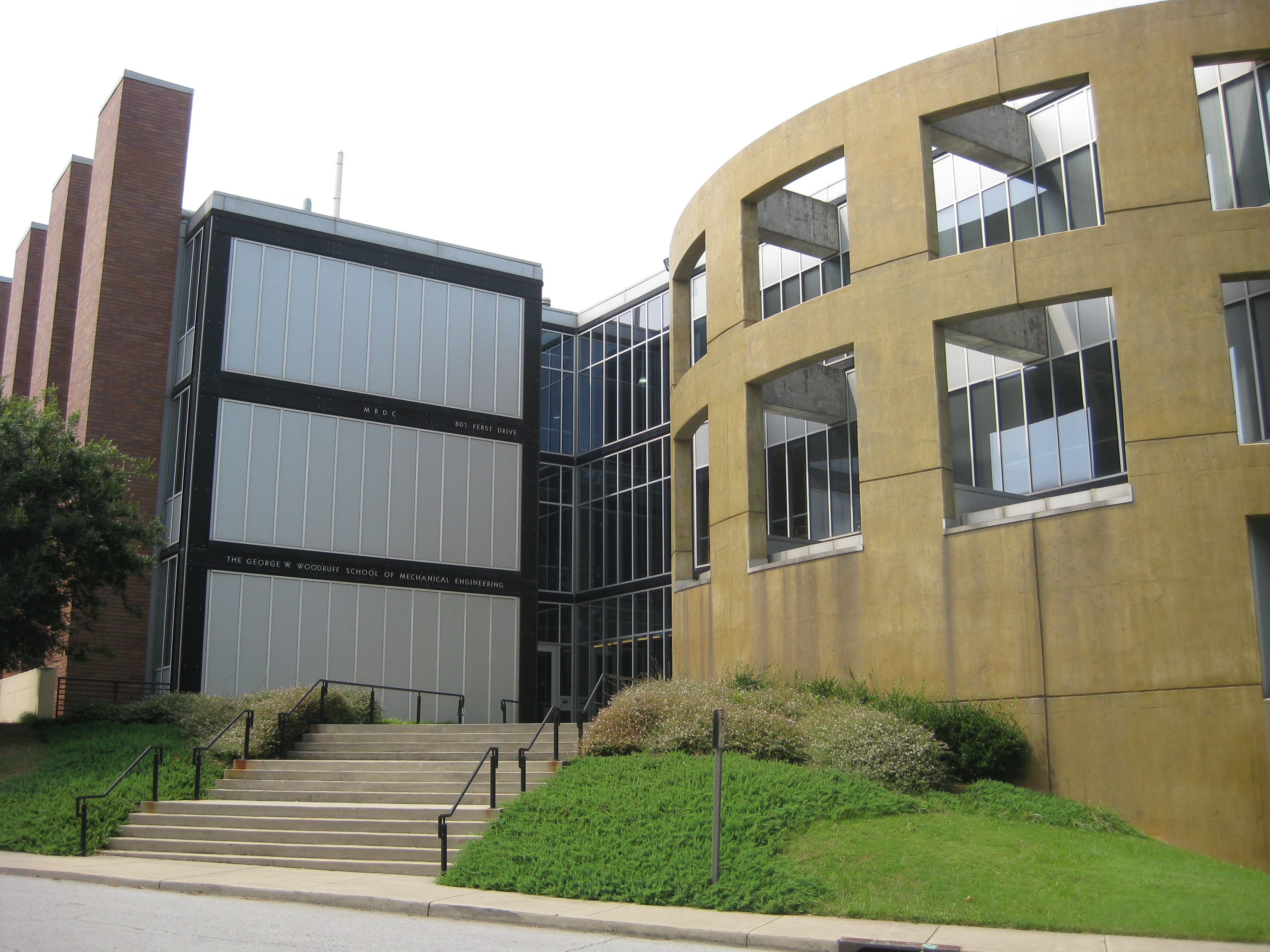 George W. Woodruff School of Mechanical Engineering building